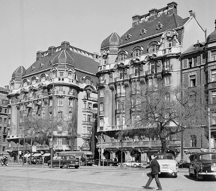 Strandvägen 7 Stockholm.